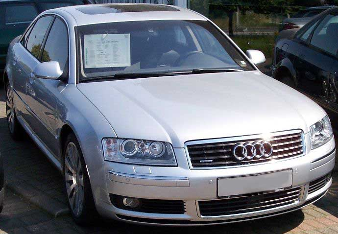 Audi A8 4.0 TDi, own work, GFDL